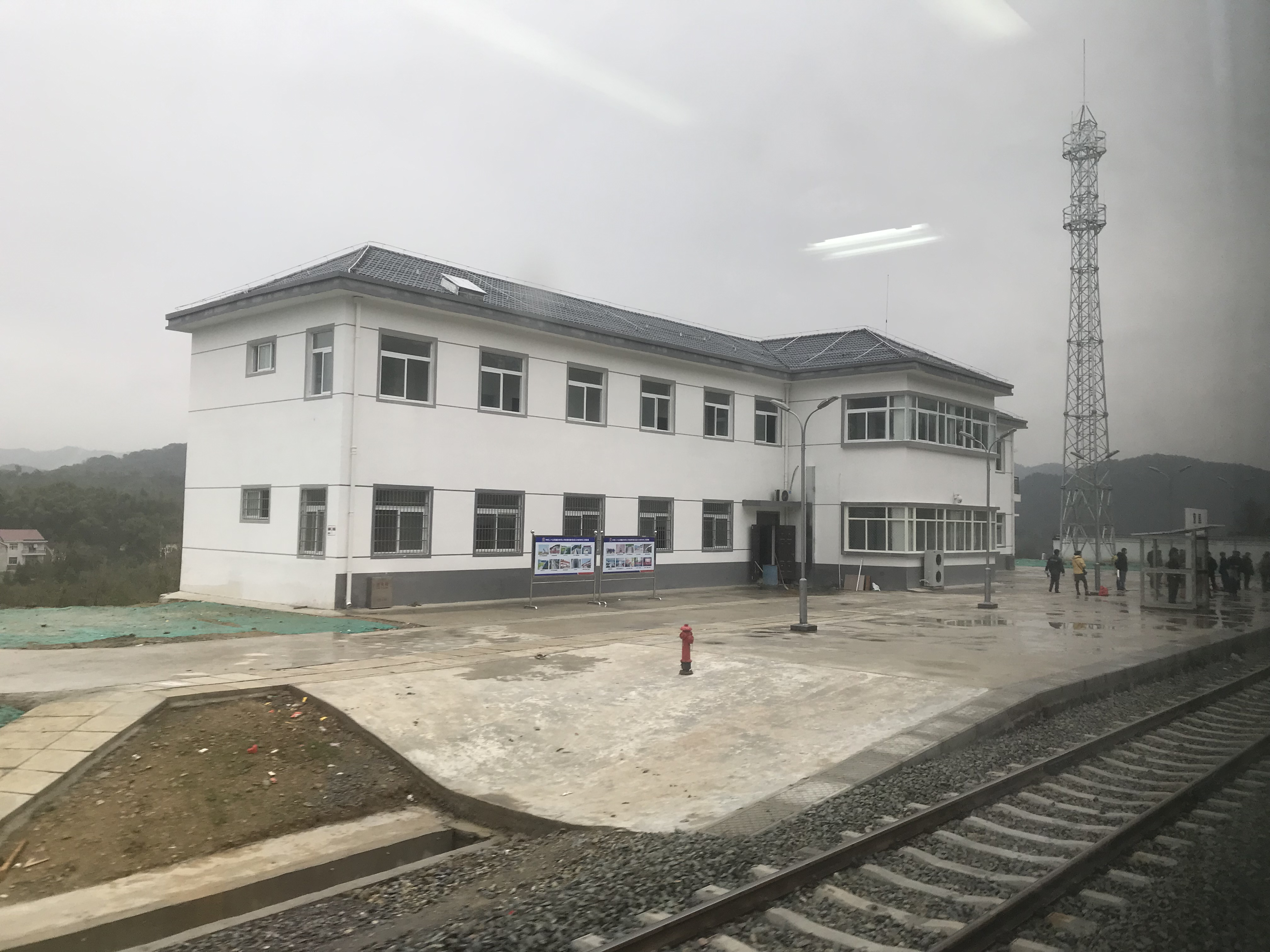 50 meters west to the old one.